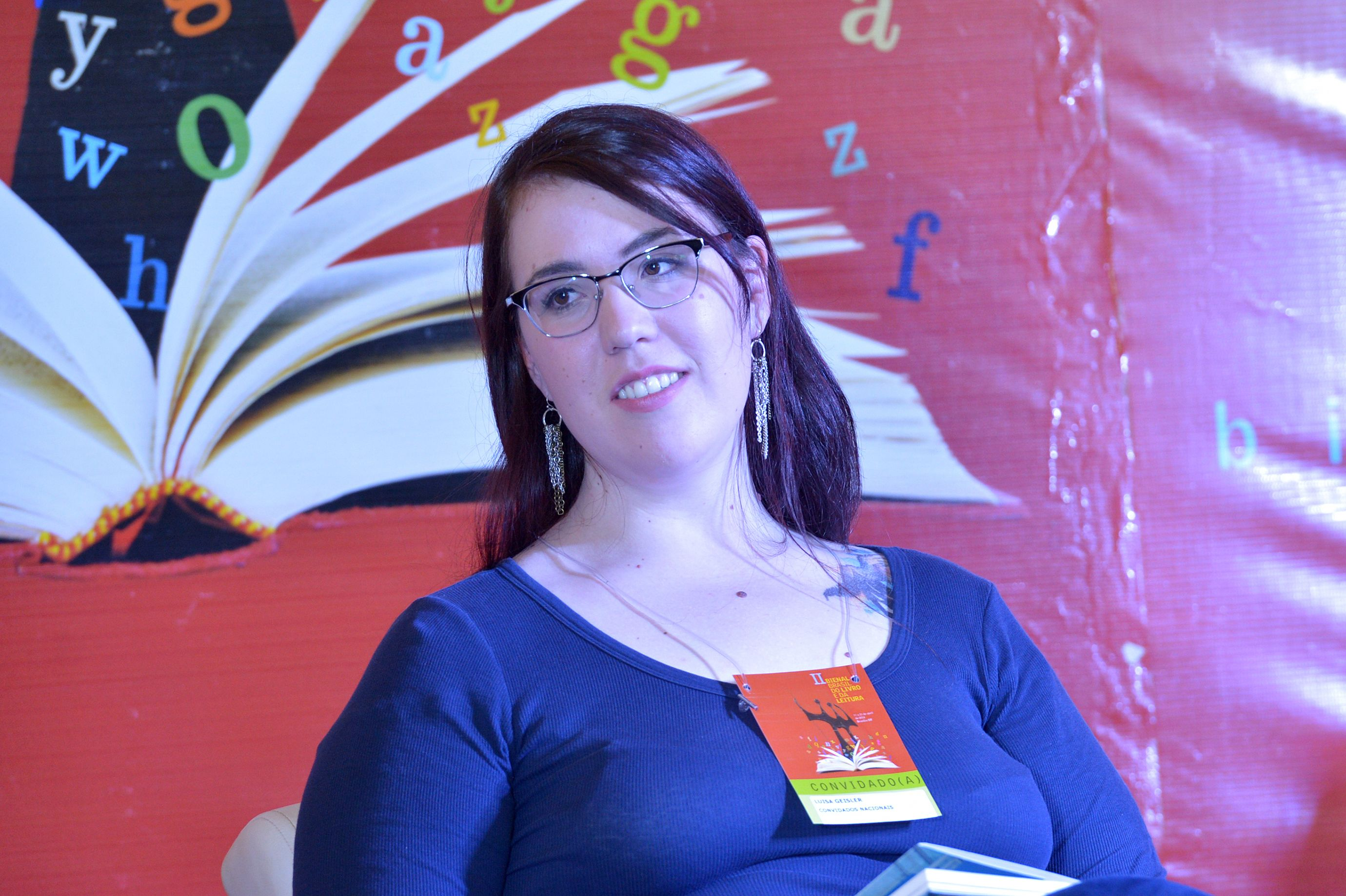 Brazilian writer Luisa Geisler. Photo by Agência Brasil published under a CC-BY-3.0 license